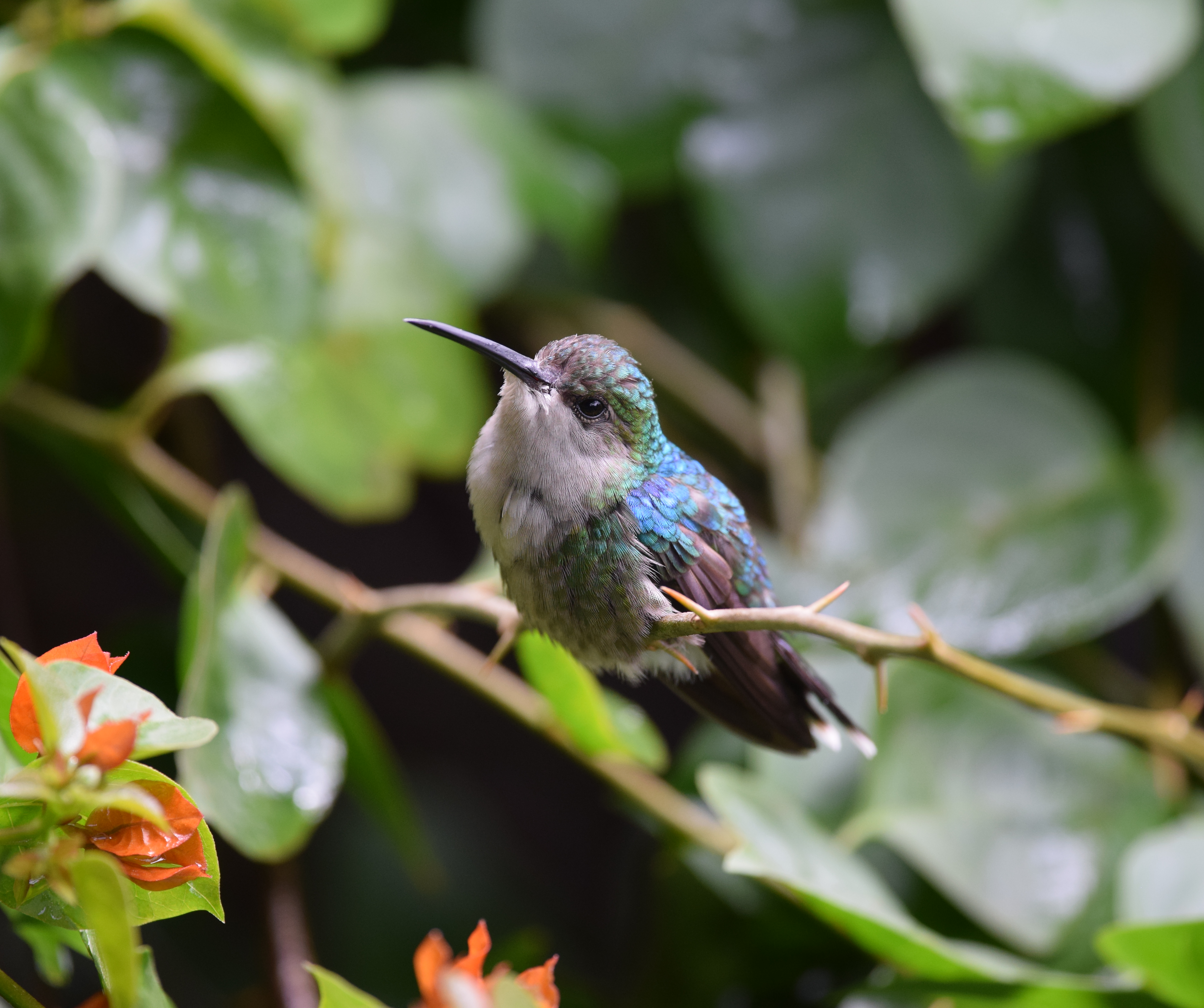 Costa Rica 2/12/16 Rancho Naturalista